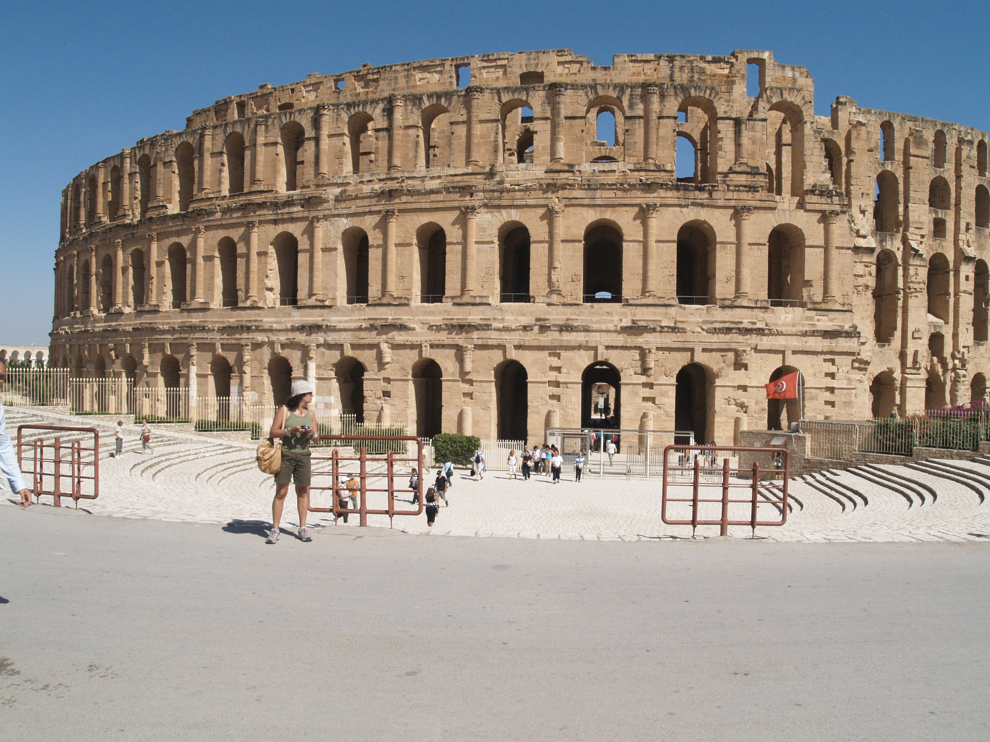 AWIB-ISAW: The Roman Amphitheatre at el-Djem (IX) An exterior view of the Roman amphitheater at el-Djem (Thysdrus), Tunisia by Graham Clayton (2007) copyright: 2007 Graham Clayton (used with permission) photographed place: Thysdrus (el-Djem) Published by the Institute for the Study of the Ancient World as part of the Ancient World Image Bank (AWIB). Further information